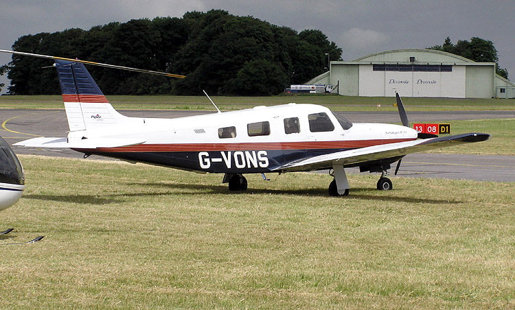 Piper PA-32R Turbo Saratoga at Kemble Airfield